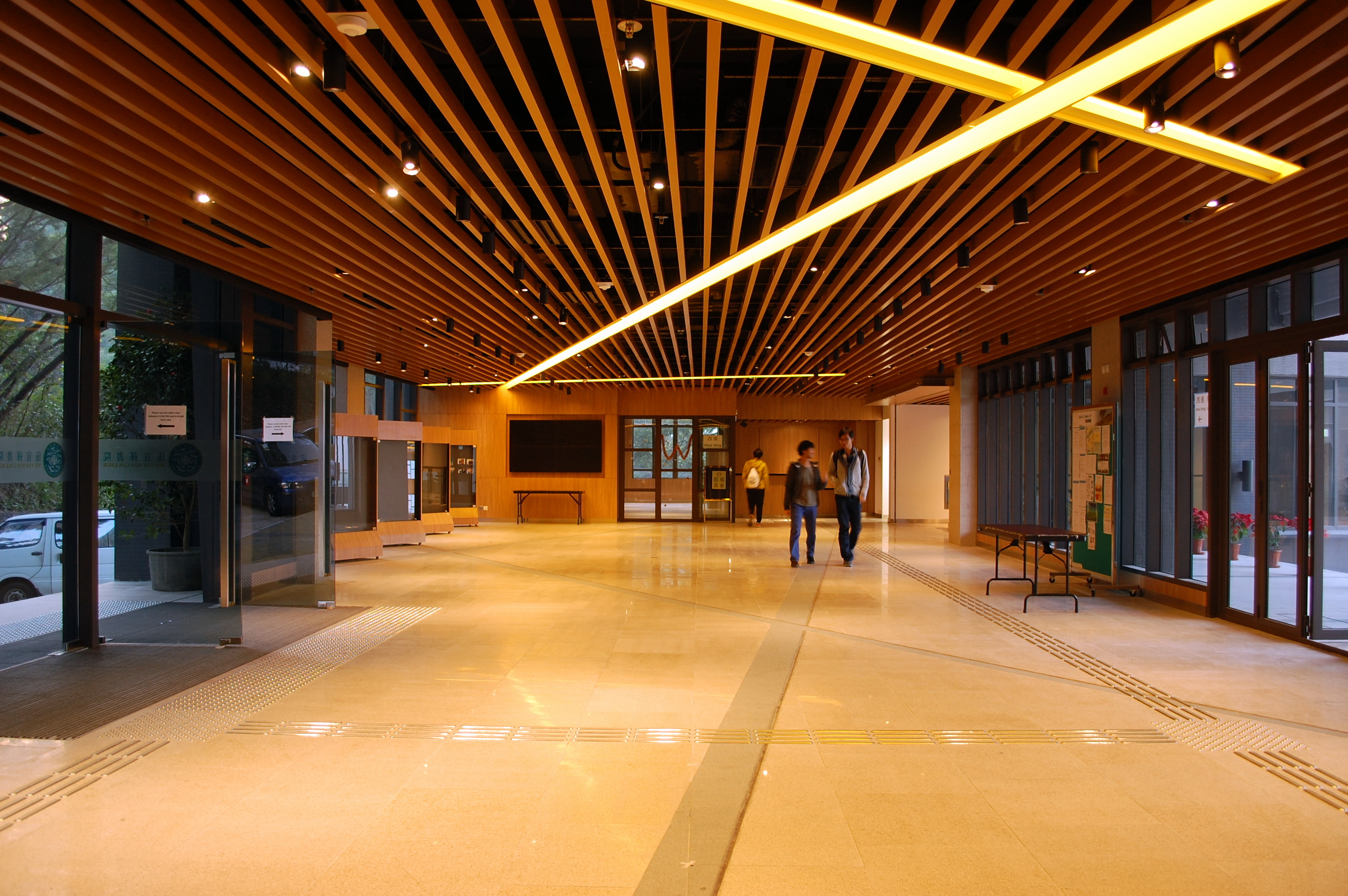 The entrance lobby of Wu Yee Sun College, Chinese University of Hong Kong.中文（香港）: 香港中文大學伍宜孫書院